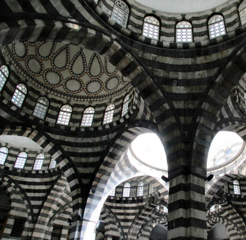 Cropped version of Khan As'ad Pacha Al-'Azem.jpg